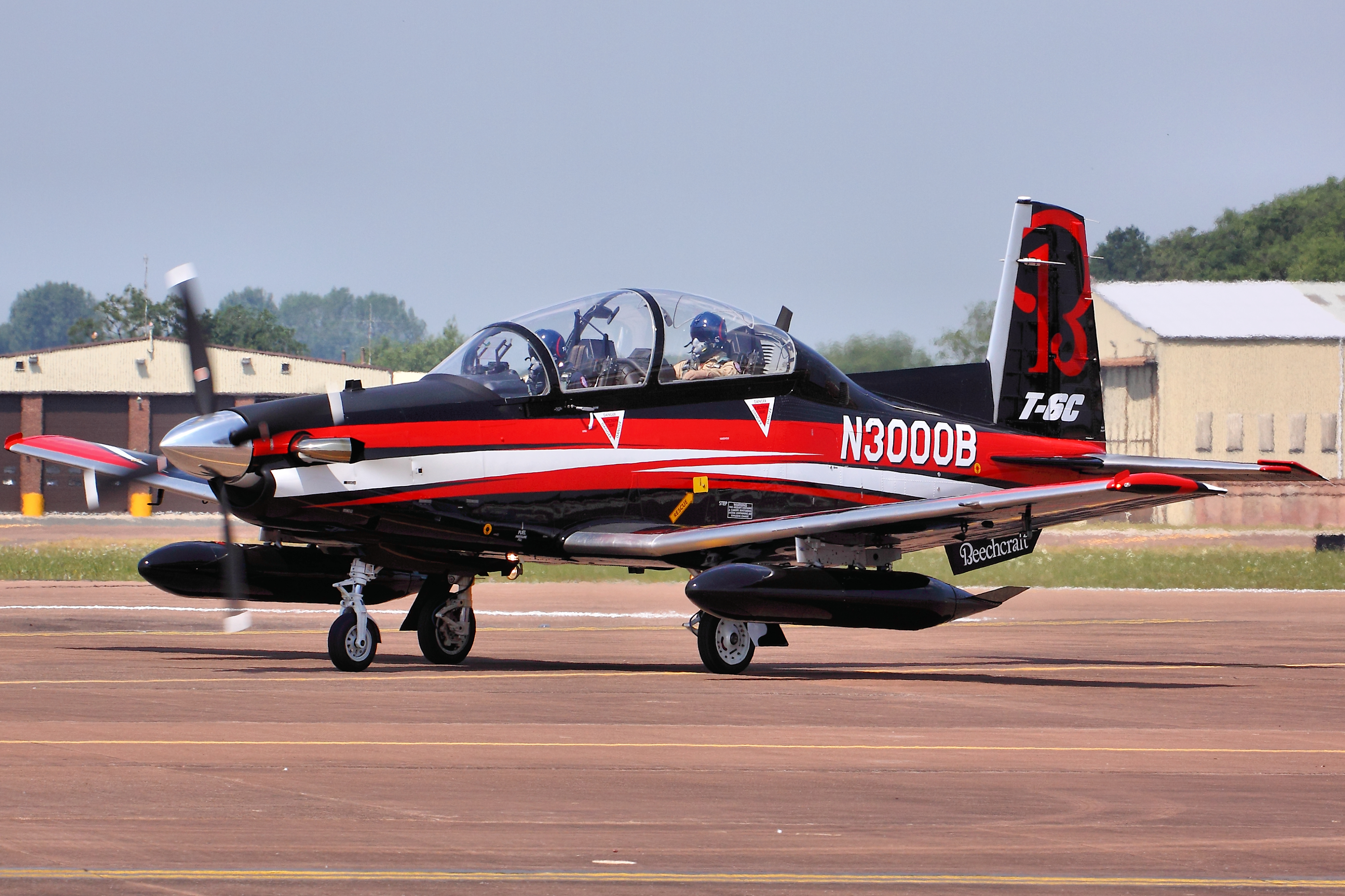 RIAT 2013